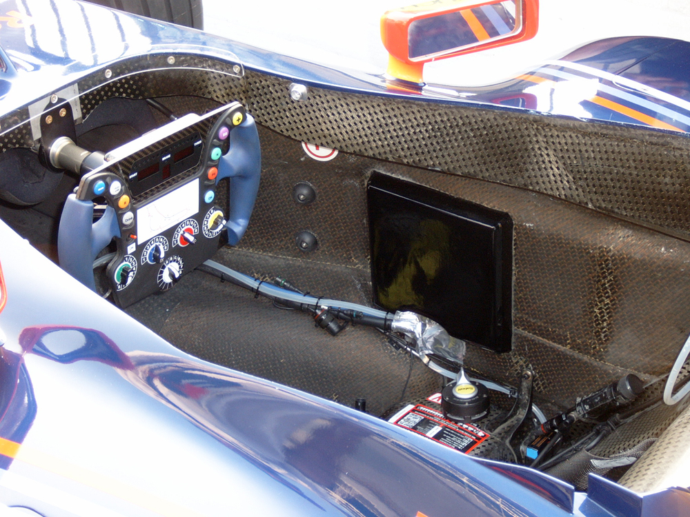 Cockpit of the Red Bull RB1